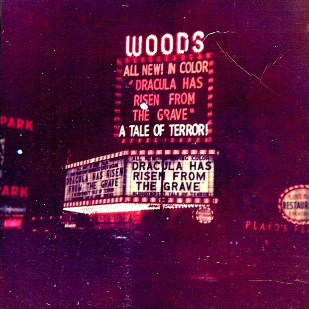 The Woods Theater was kitty corner to the United Artists Theater in downtown Chicago. This theater had the "honor" of having one of the first X rated films shown in Chicago - "The Fox" It was about a two women who discovered they were lesbians. The most shocking scene in the movie was one girl confessed to wearing the other's underwear. Lines to get into see this movie stretched around the corner. That's the 60's for you! By the way, even though I was not 18 at the time, I got in for free to see this. I found the movie very boring. The downtown ushers exteneded unofficial courtesies to one another. While I worked as an usher I did not have to pay to see a movie.